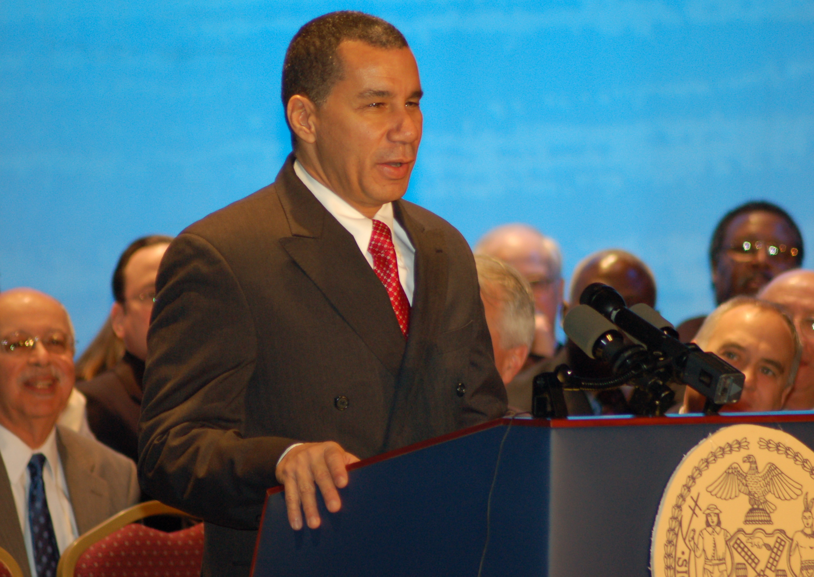 STATEN ISLAND, N.Y. -- Governor David Paterson speaking at the inauguration of Debi Rose.